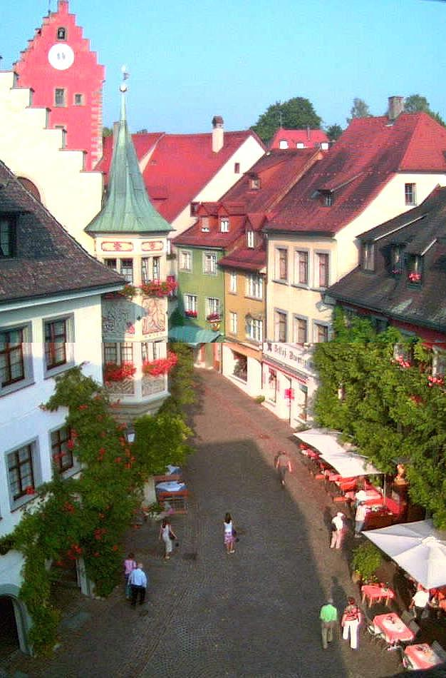 The Old Town of Meersburg, View over the Market Place towards the "Obertor"